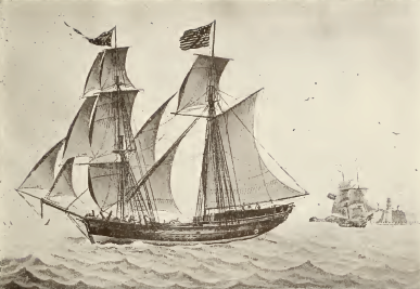 Plate Nr. 89 as shown in "The Sailing Ships of New England 1607-1907" caption: Brigantine "Experiment," of Newburyport, 114 Tons, Built at Amesbury in 1803. From a water-color painted in 1807 by Nicolay Carmillieri.